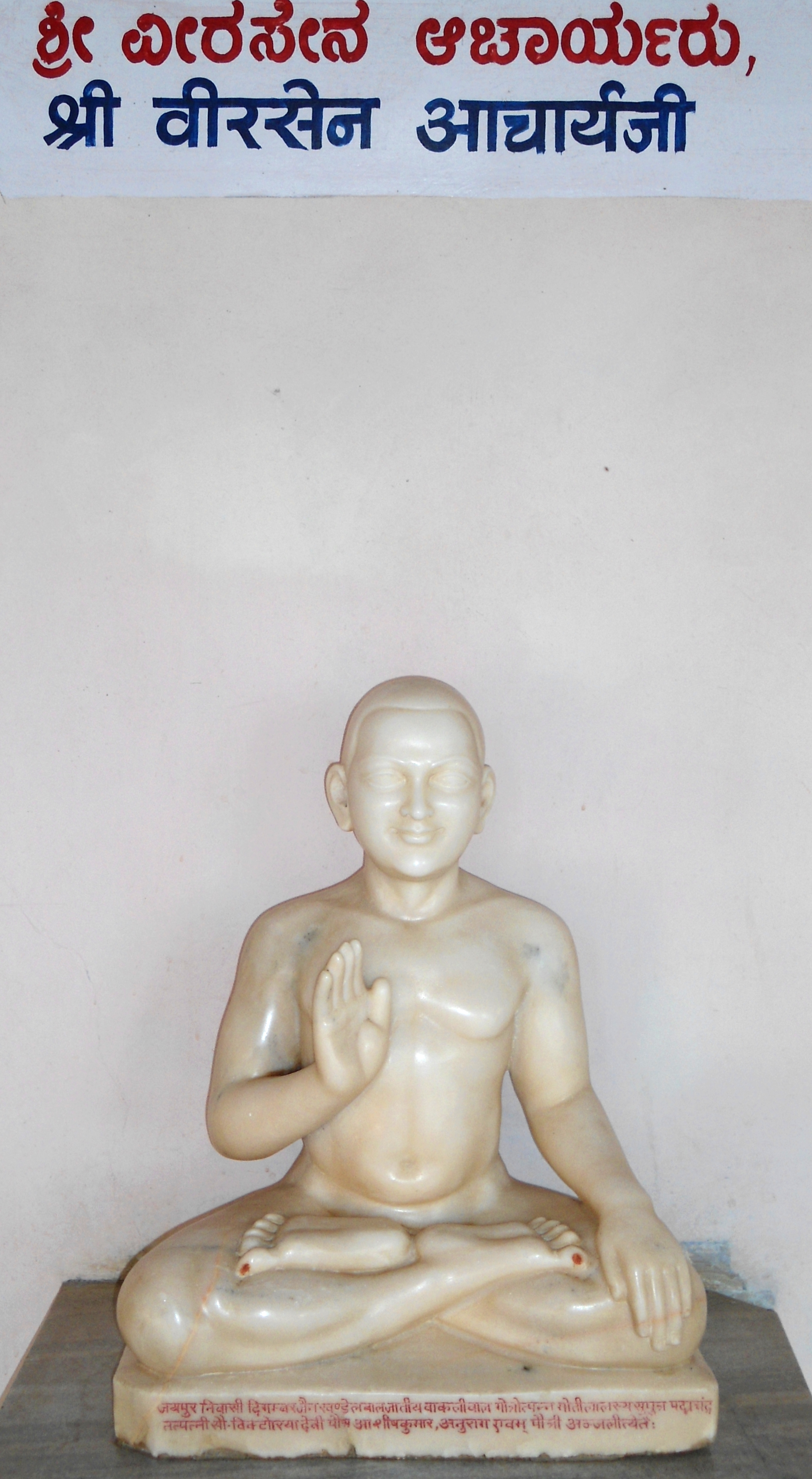 Image of Digambar Acharya Virsena